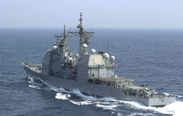 The USS Chosin (CG-65)